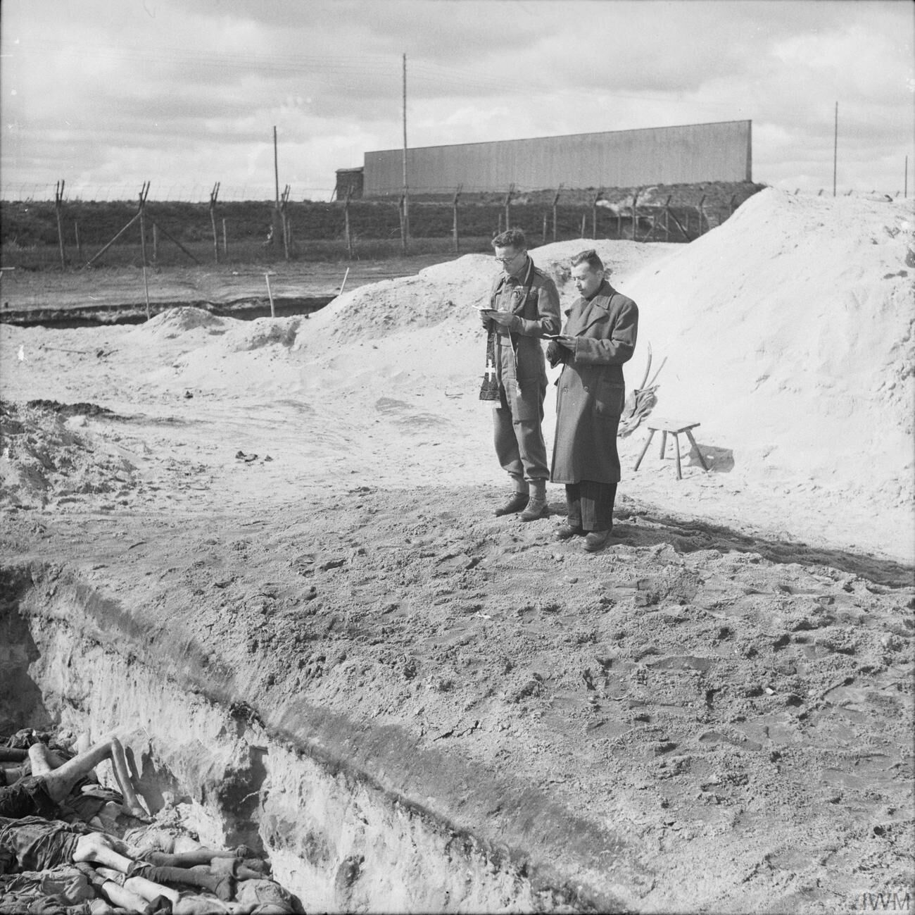 The Liberation of Bergen-belsen Concentration Camp, April 1945 Two British Army chaplains, Rev Leslie H Hardman, Senior Jewish Chaplain to the 2nd Army, and the Roman Catholic Padre Father M C Morrison, conduct a service over one of the mass graves before it is filled in.